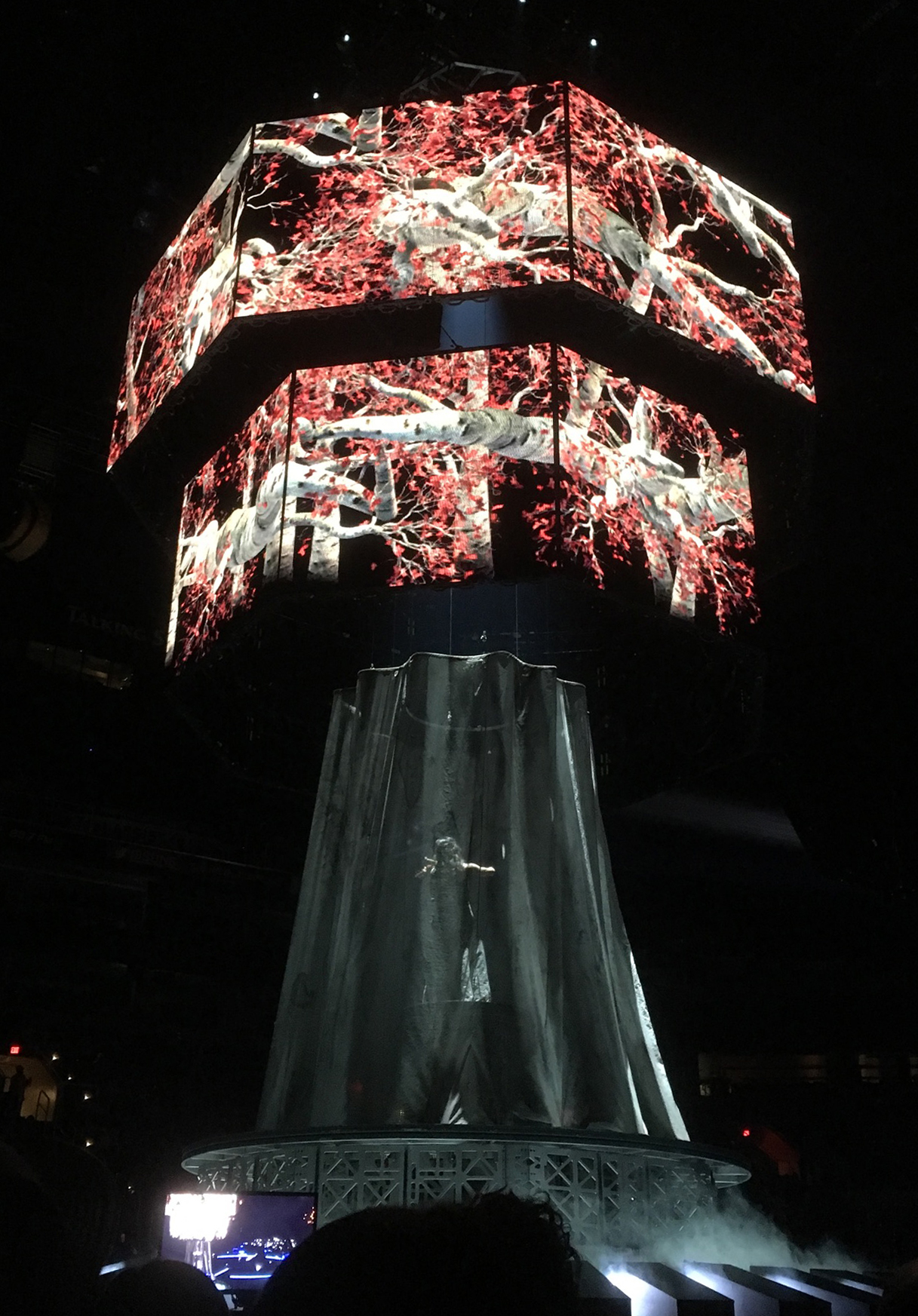 The Game of Thrones Live Concert Experience at Talking Stick Resort Arena in Phoenix, Arizona.